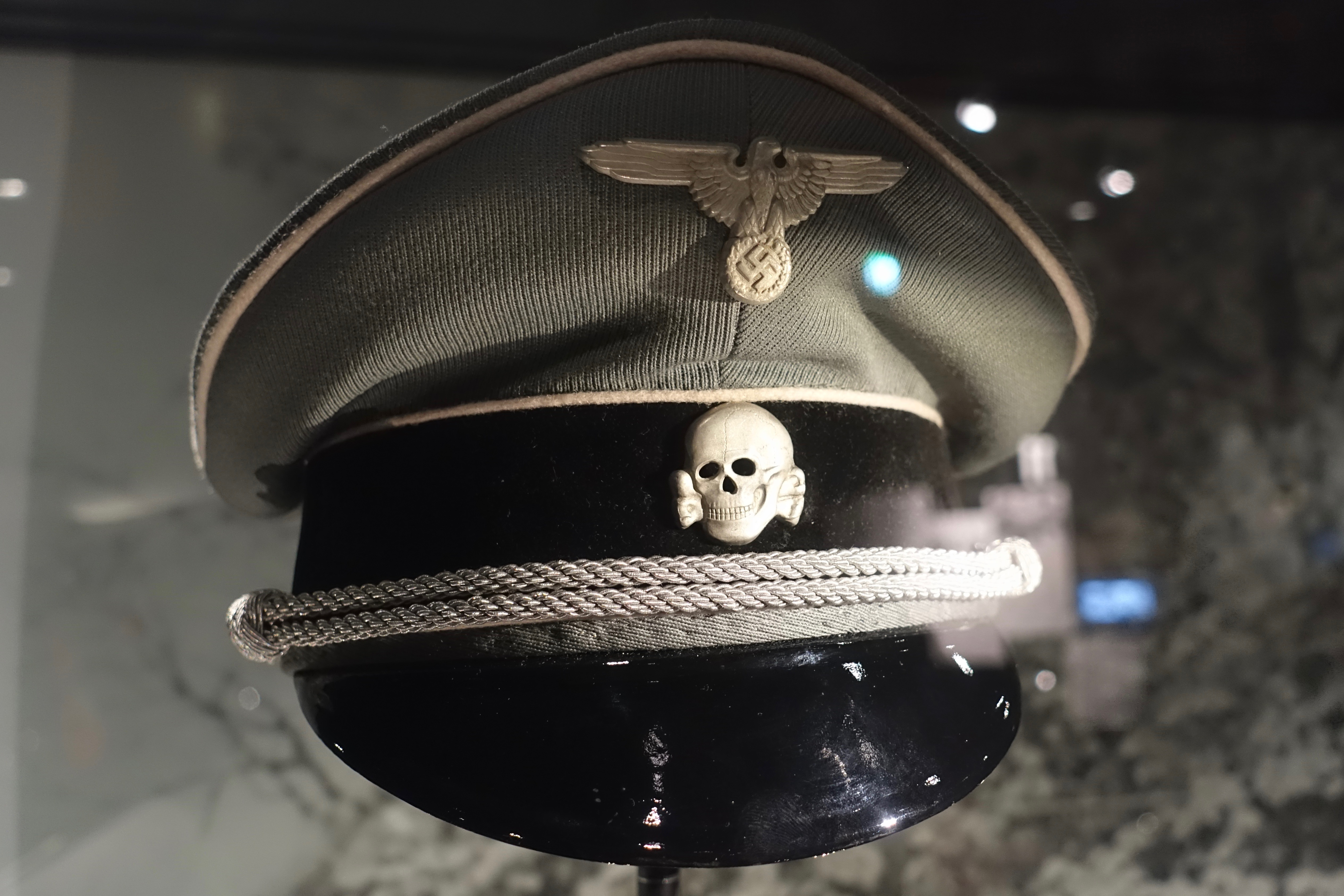 Detail of Schutzstaffel uniform of the Third Reich (Nazi Germany): High-fronted peaked visor cap (Schirmmütze) of the SS (Schutzstaffel). SS style silver Hoheitszeichen/Hoheitsadler, SS' version of the Nazi Germany imperial eagle, the German national emblem featuring an art deco Reichsadler with expanded wings clutching a swastika inside a circular oak wreath SS' silver skull and crossbones/death's head (Totenkopf) cap insignia, adopted from the Totenkopfhusaren, the 5th Hussar/Life-Guard Cavalry Regiment of Prussia Officer's chin strap cord in silver Piping around the cap crown and cap band in corps colour (Waffenfarbe) From the exhibitions at the Norwegian Armed Forces Museum (Forsvarsmuseet) in Oslo, Norway. Photo taken on March 31st, 2019 Uniform tunic and visor cap (peaked cap) belonged to a Norwegian volunteer with the rank of SS-Untersturmführer in the Waffen-SS during World War II.